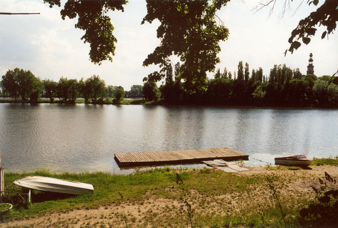 Chelmza, Jezioro Chełmżyńskie: Lakeshore at suburb, next to near market square. point of view approx.